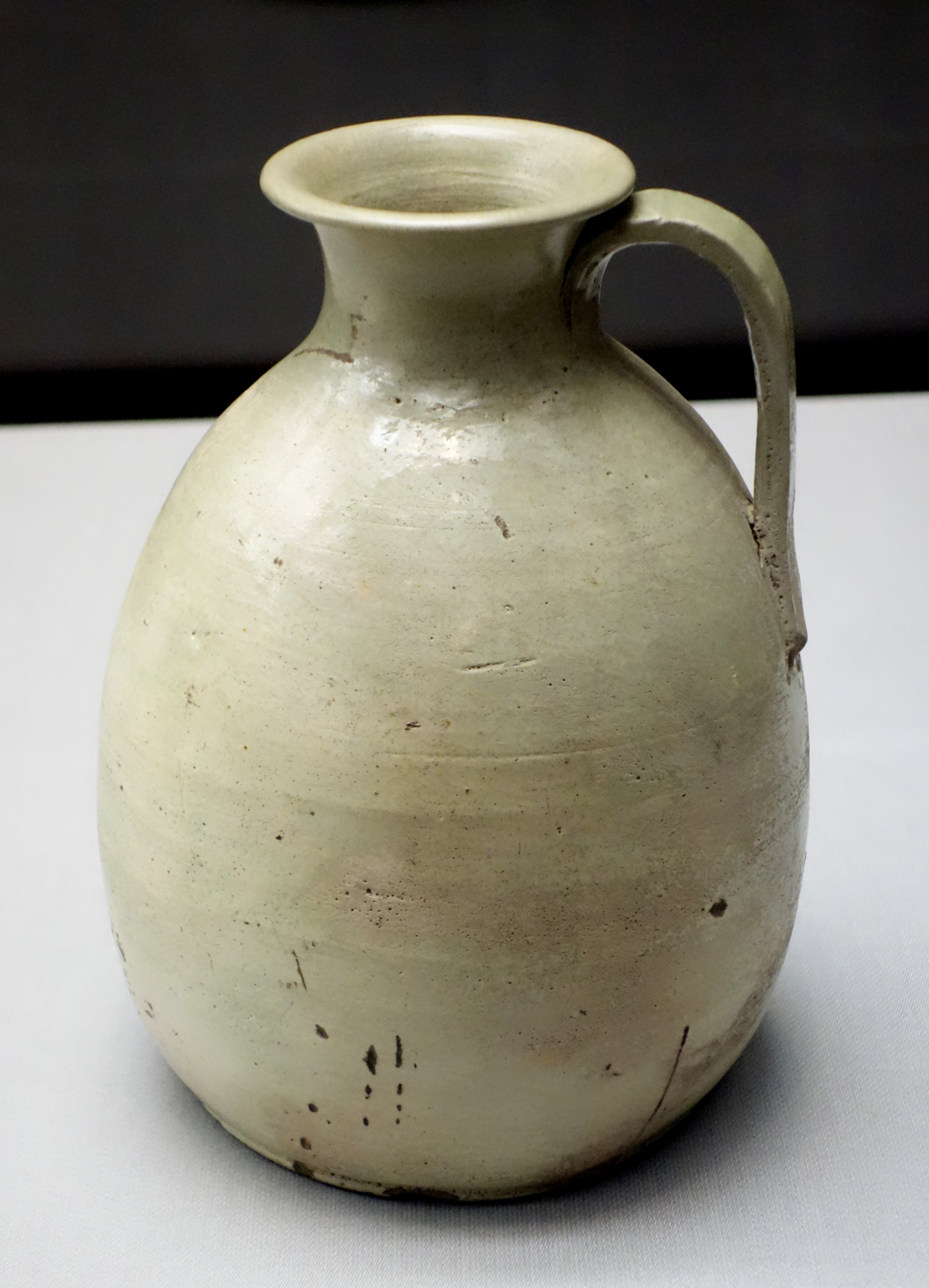 Exhibit in the Tokyo National Museum, Tokyo, Japan. This artwork is old enough so that it is in the public domain.